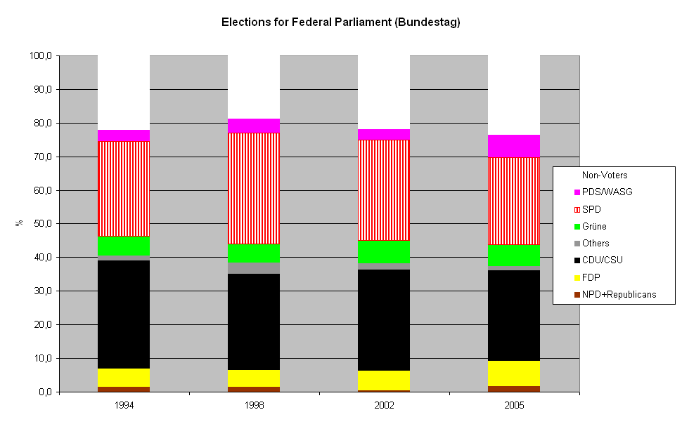 Results of Elections for Bundestag (Federal Parliament) in the FRG. Own computations and graph based on official election results by Statistisches Bundesamt.